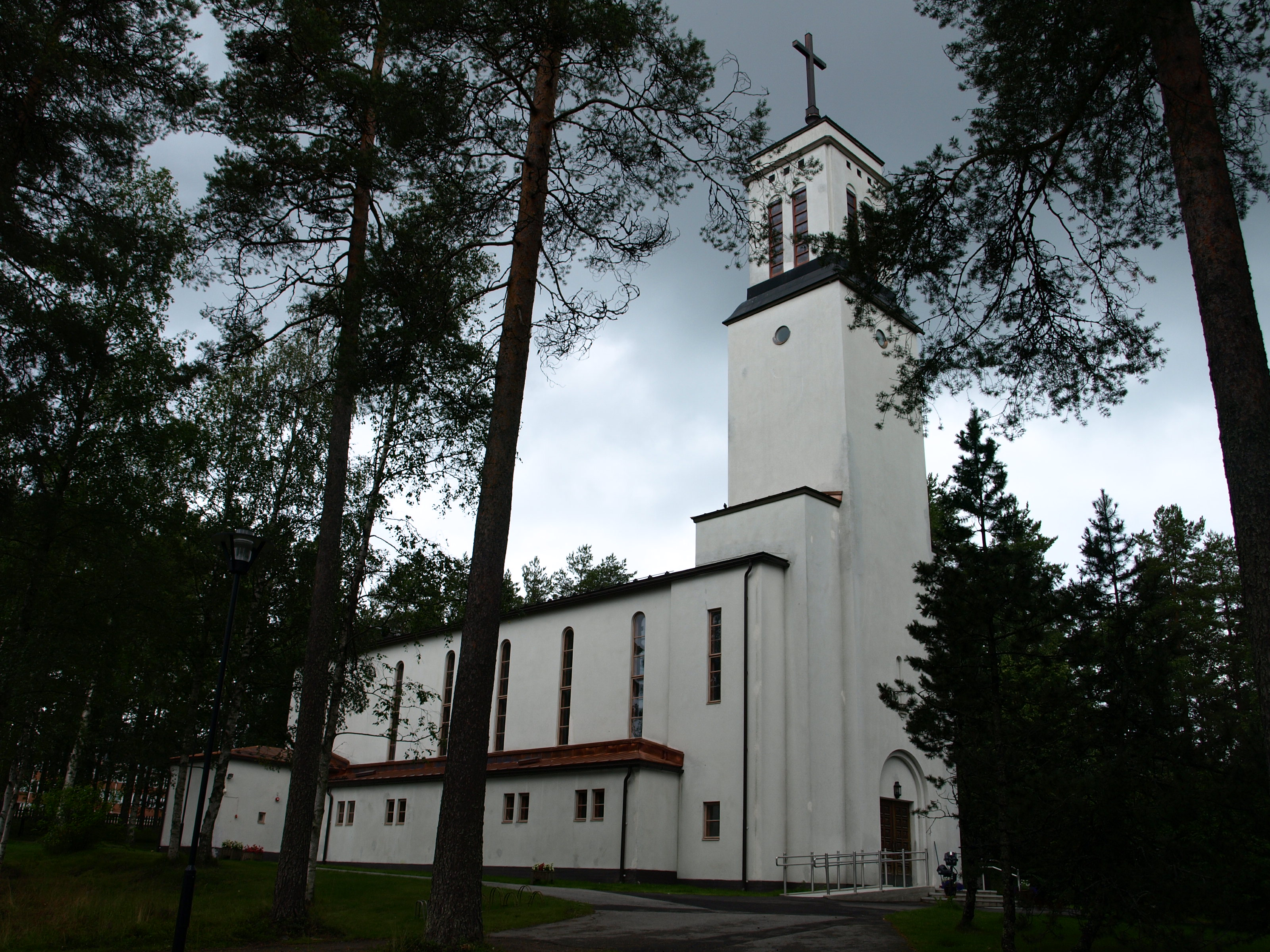 Church in Paltamo